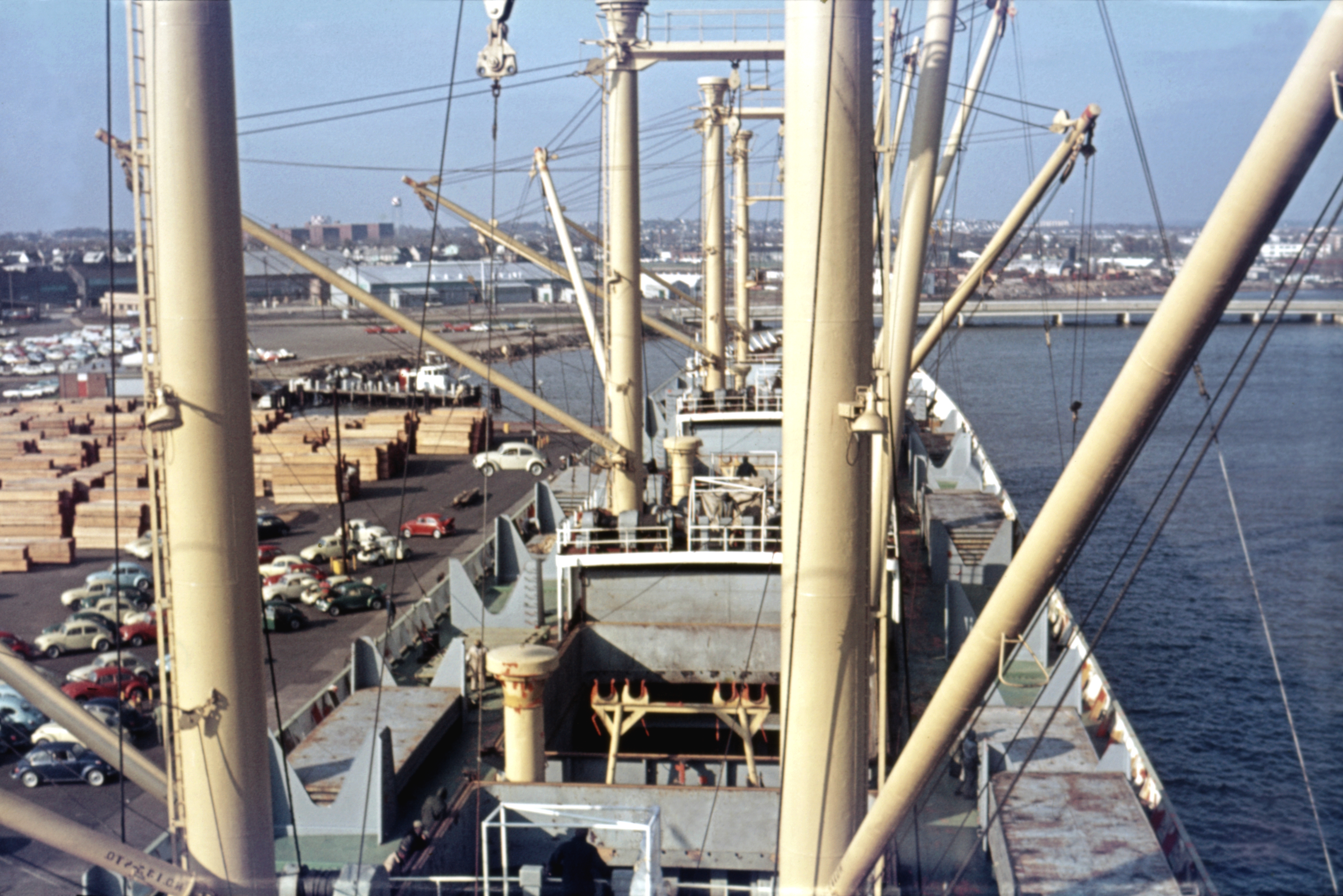 Car carrier Johann Schulte during discharge of Volkswagen in Baltimore harbor December 1970